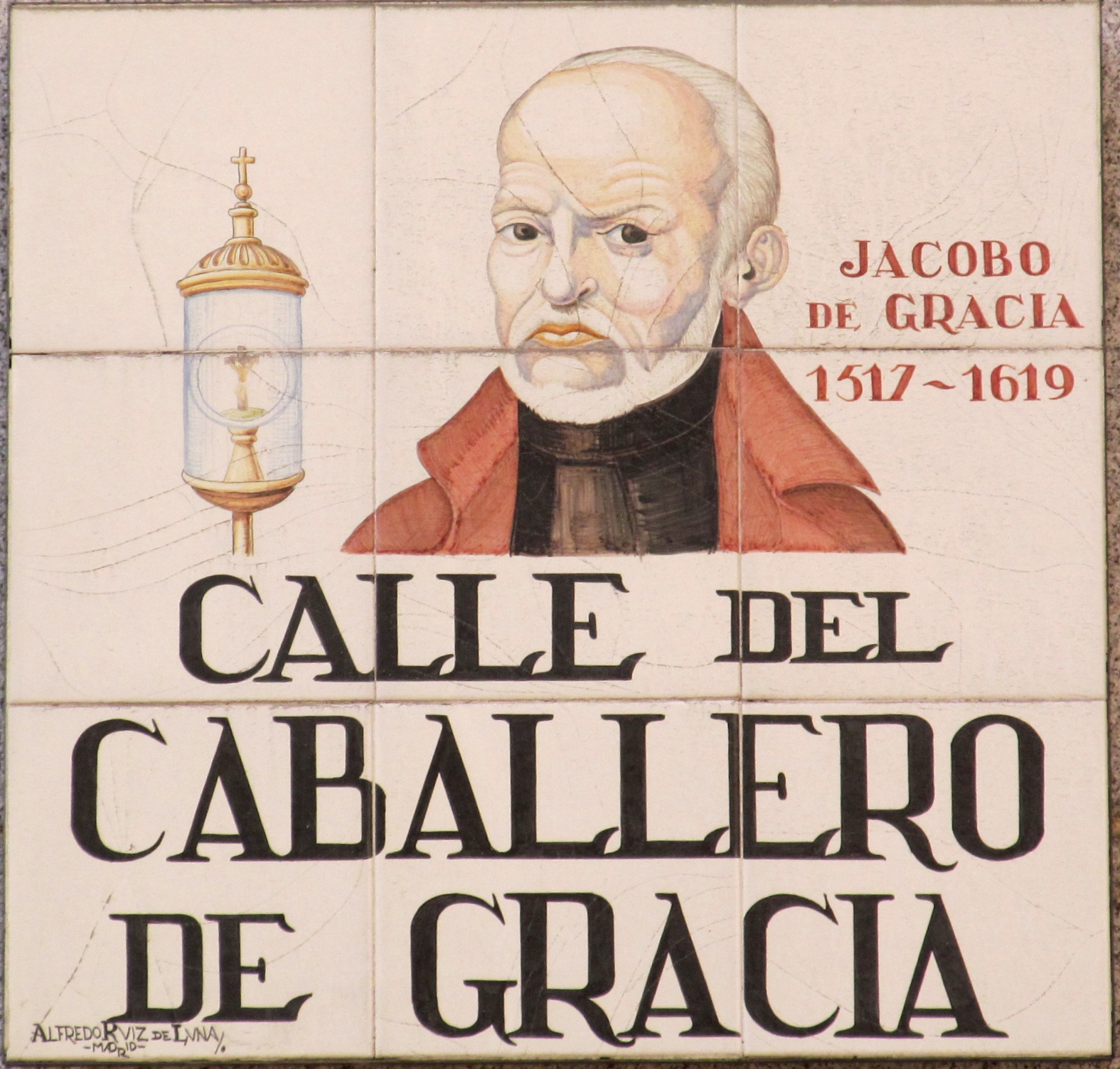 Sign of Calle del Caballero de Gracia (street, Centro district) in Madrid (Spain).